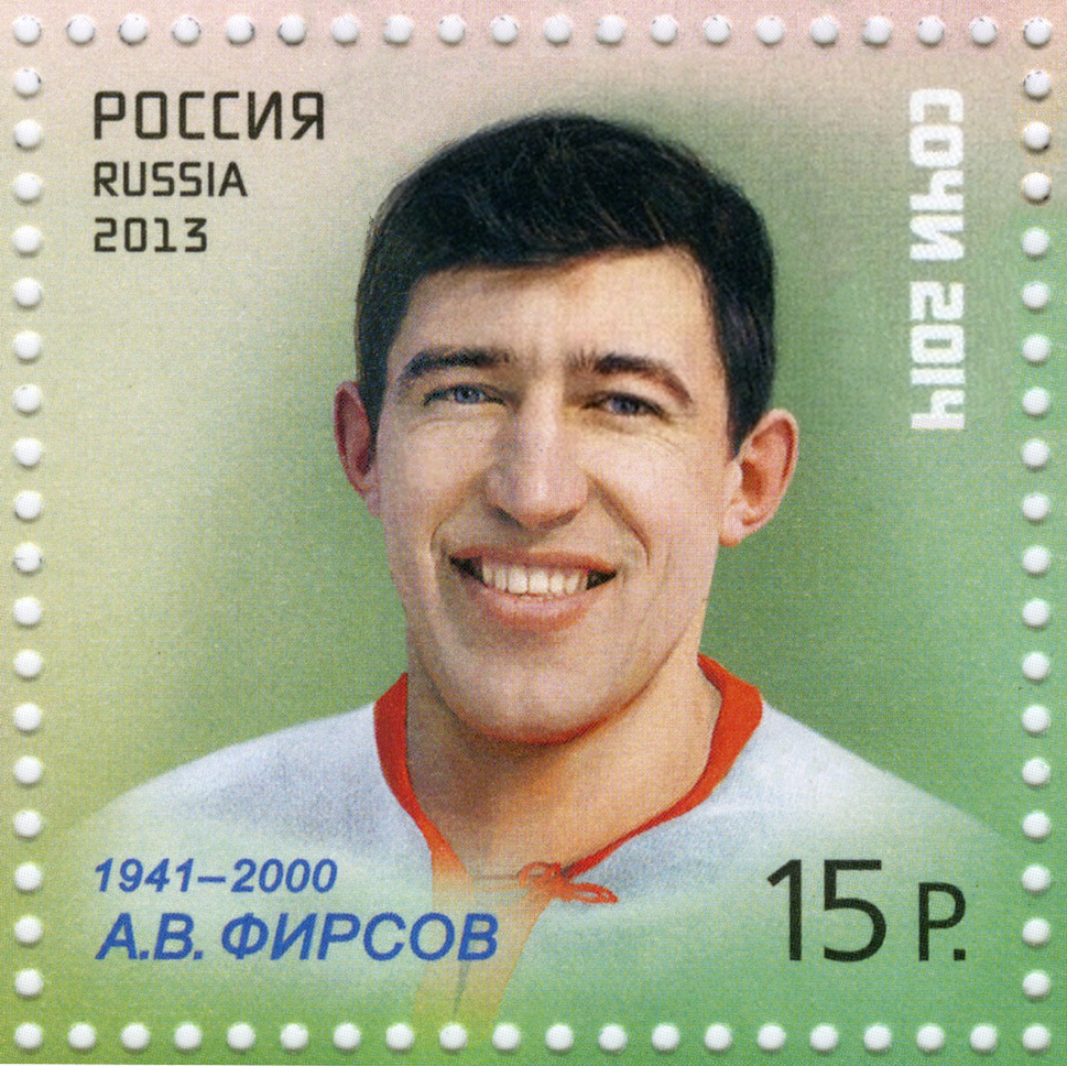 № 1751-1755. XXII Olympic Winter Games and XI Paralympic Winter Games 2014 in Sochi. Sports Legends. 1755 – Anatoli V. Firsov (1941–2000)